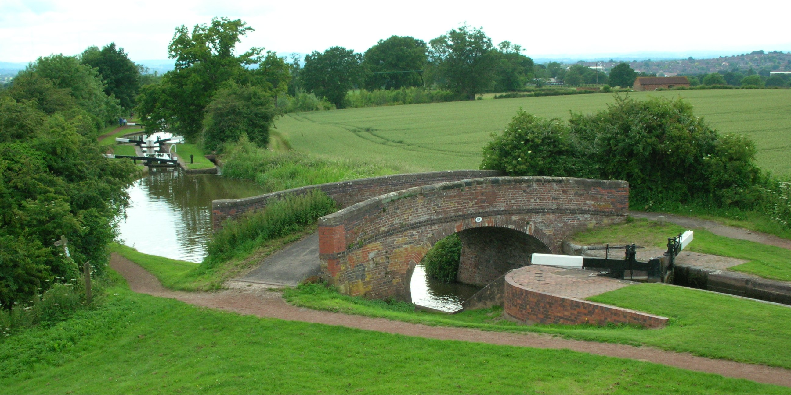 Some of the Tardebigge Locks and a bridge (number 54) on the Worcester and Birmingham Canal near Tardebigge, Worcestershire, England. Photographed from the embankment of Tardebigge Reservoir by me 24 June 2007. Oosoom